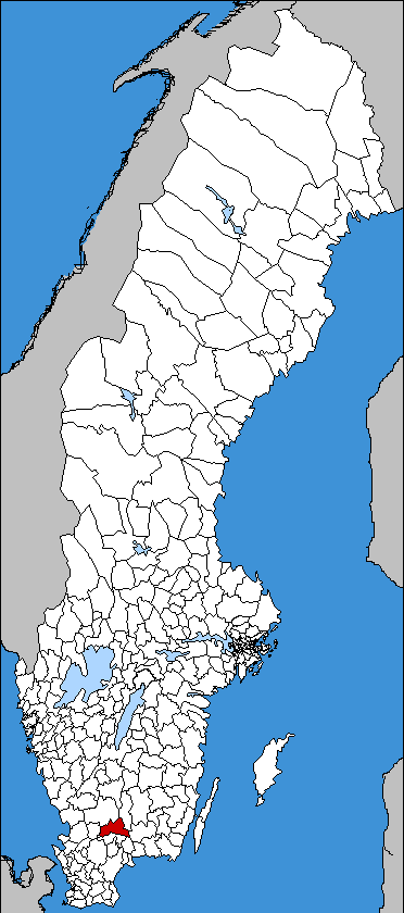 Selfmade. Showing location of Älmhult Municipality among Sweden's municipalities.